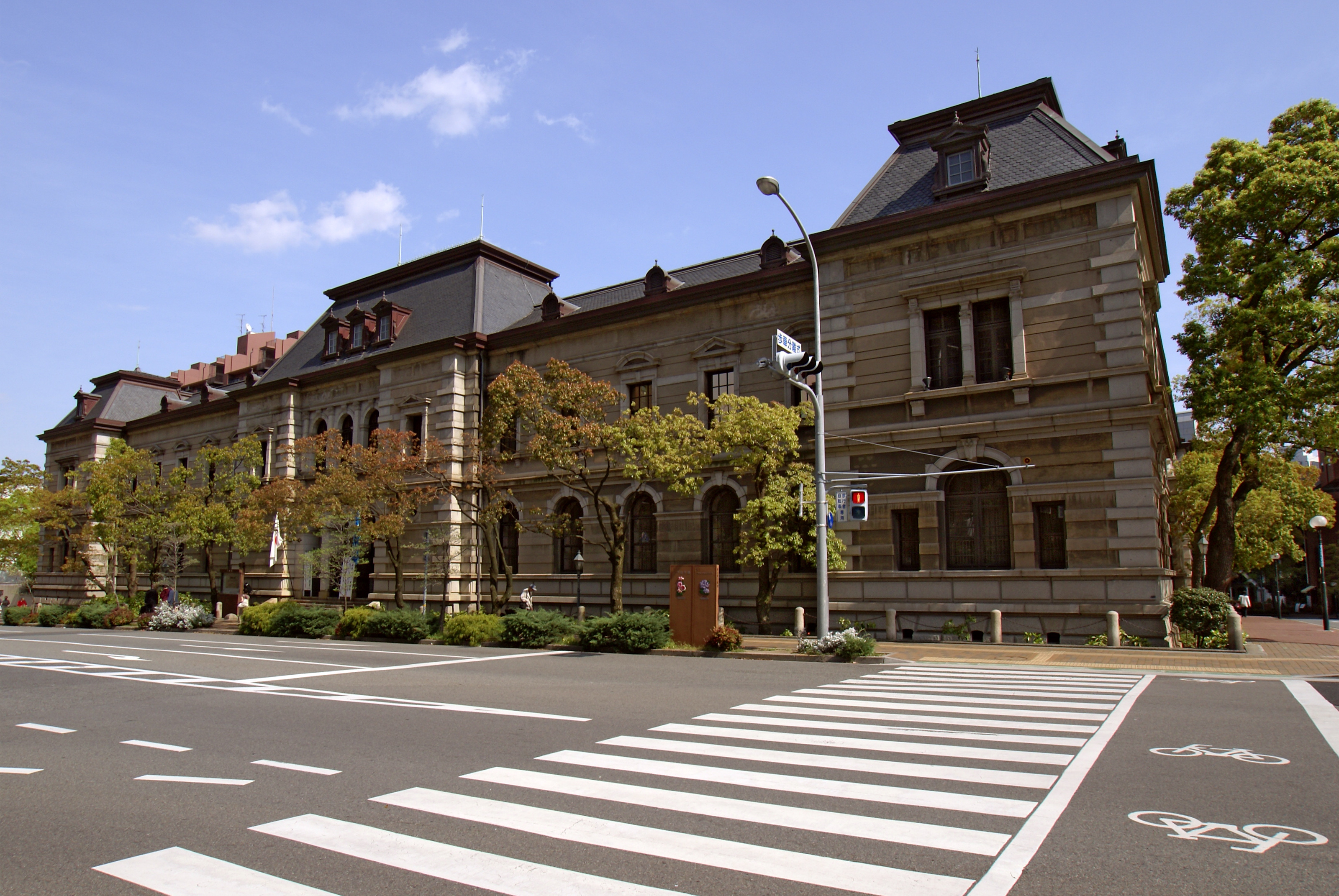 Old Hyogo Prefectural Office Building in Kobe, Hyogo prefecture, Japan